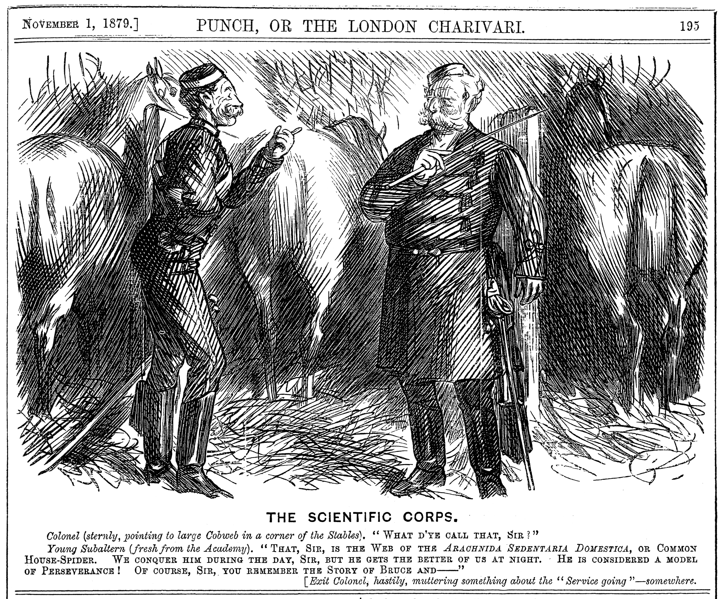 One of the cartoons from Punch featuring the Colonel, a recurring character that would inspire F. C. Burnand's aesthetic parody "The Colonel", which opened shortly before Gilbert and Sullivan's Patience.